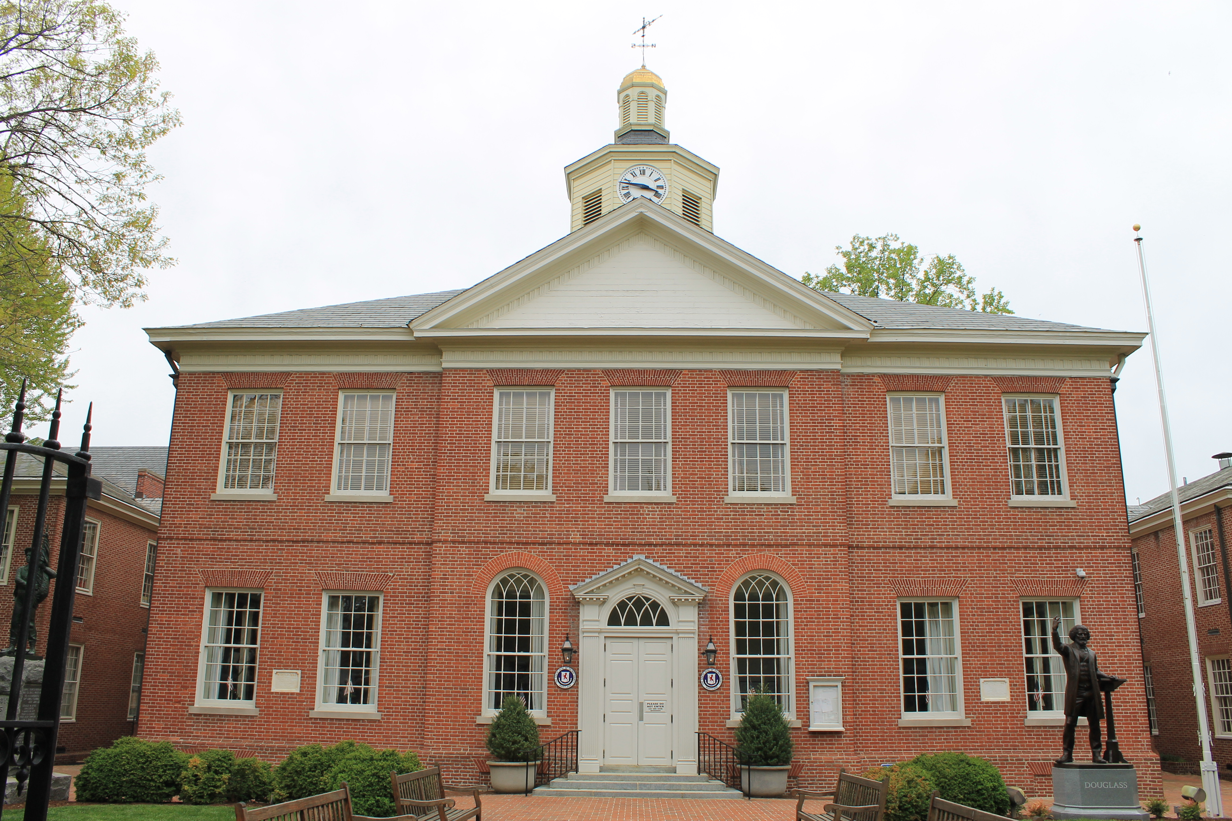 Talbot County Maryland Court House